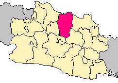 Subang county, West Java province, Indonesia